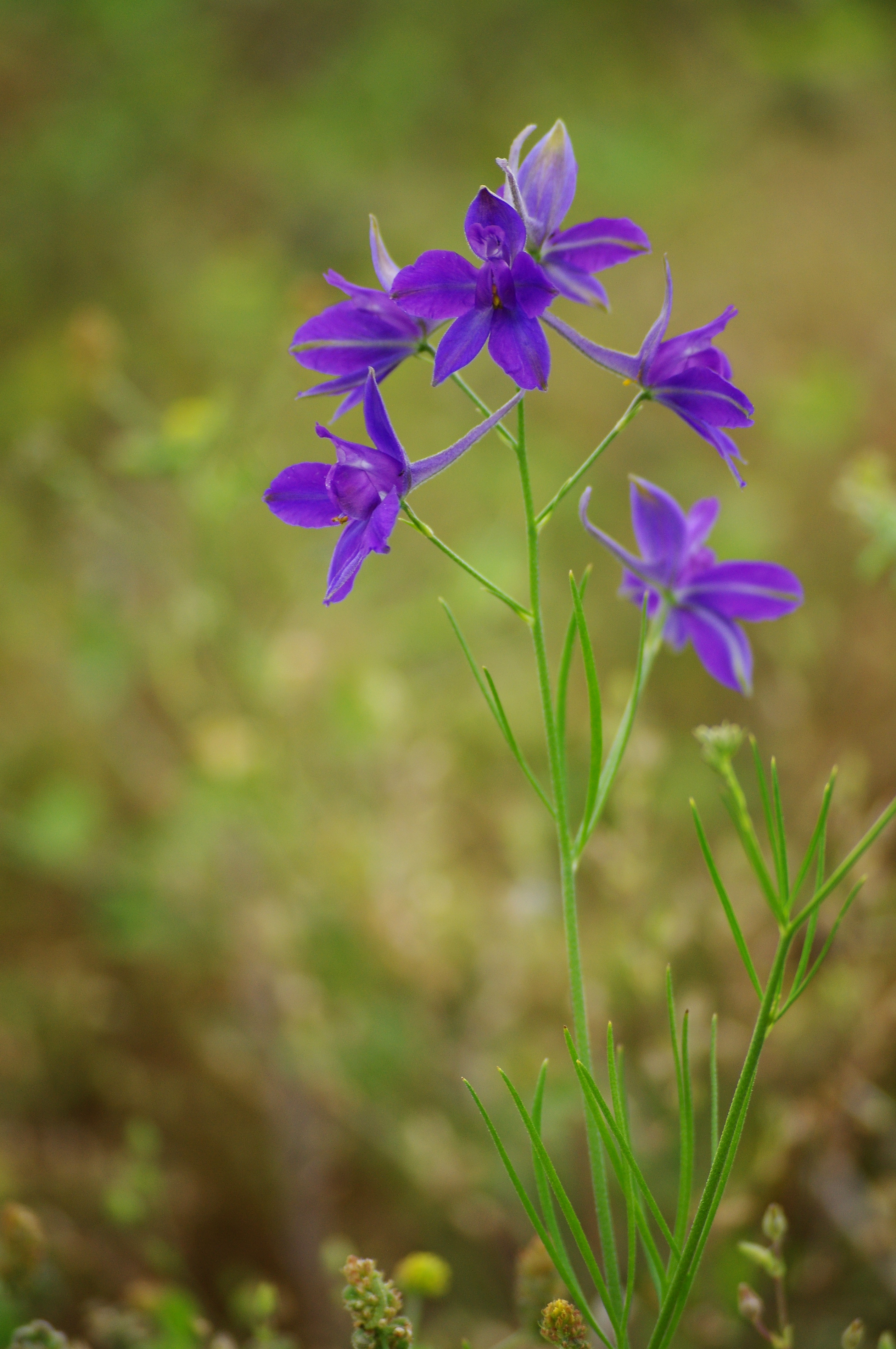 Põld-varesjalg söödil Lehtmetsa külas Albu vallas